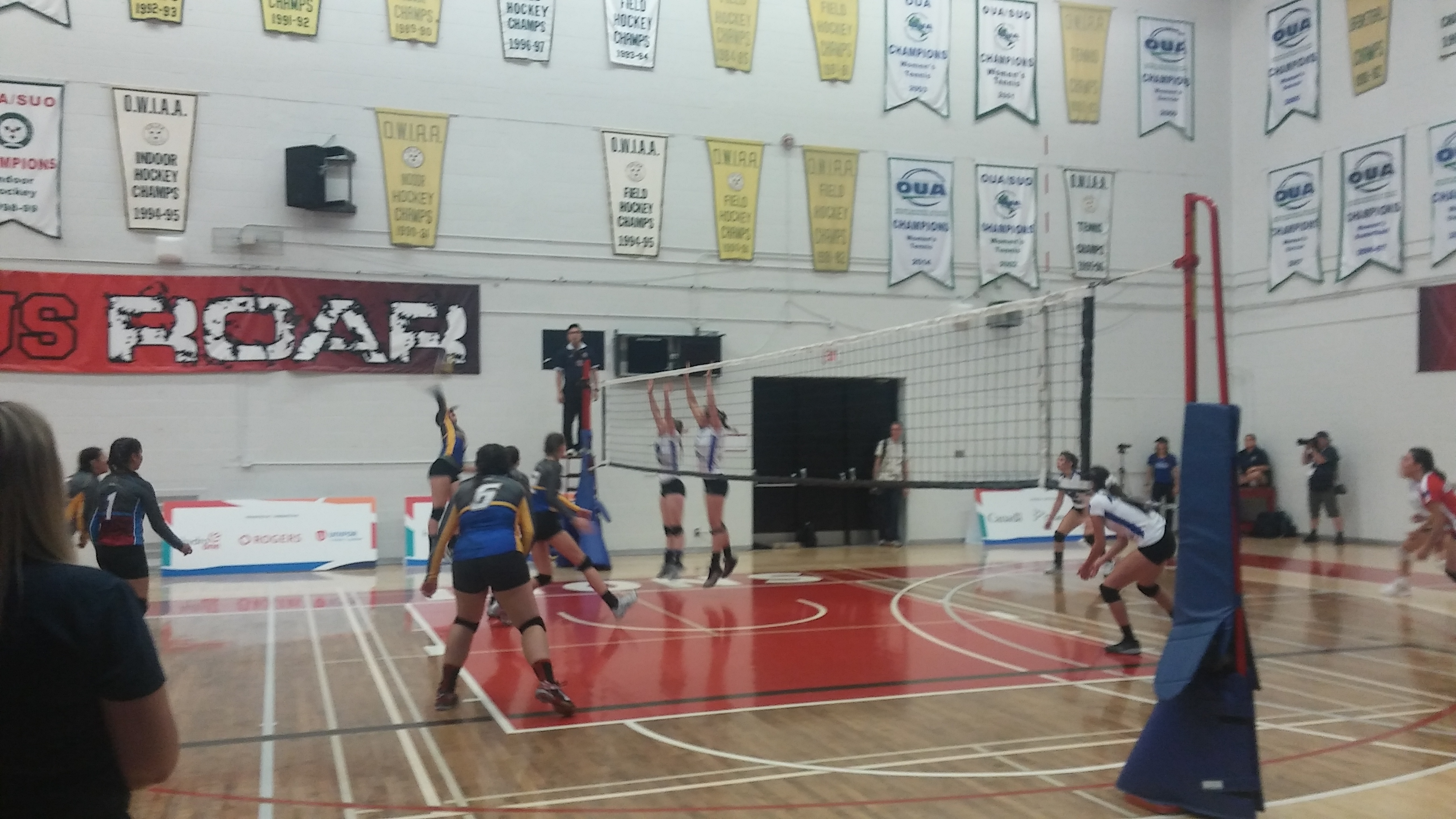 2017 North American Indigenous Games under-19 female volleyball bronze medal match at Tait Mackenzie Centre, Toronto